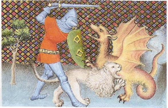 "Yvain and the dragon". The uploader could not be bothered to identifiy the source. It is apparently from a 15th-century French manuscript, possibly from MSS BNF fr. 112, 113-116, a set of manuscripts of Arthurian romances made for Jacques d'Armagnac (1433–1477).[1] (lit. S. Blackman, 'A Pictorial Synopsis of Arthurian Episodes for Jacques d'Armagnac, Duke of Nemours,' in Keith Busby, ed., Word and Image in Arthurian Romance New York: Garland, 1996, 3-57.)